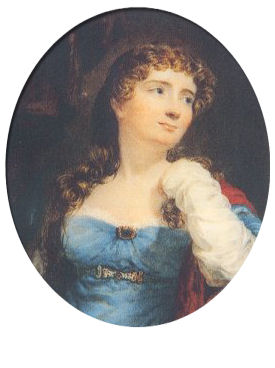 Anne Isabella Noel Byron, 11th Baroness Wentworth (17 May 1792–16 May 1860), was the wife of George Gordon Byron, 6th Baron Byron, the poet; and mother of Ada, Countess Lovelace, the patron and co-worker of Charles Babbage.